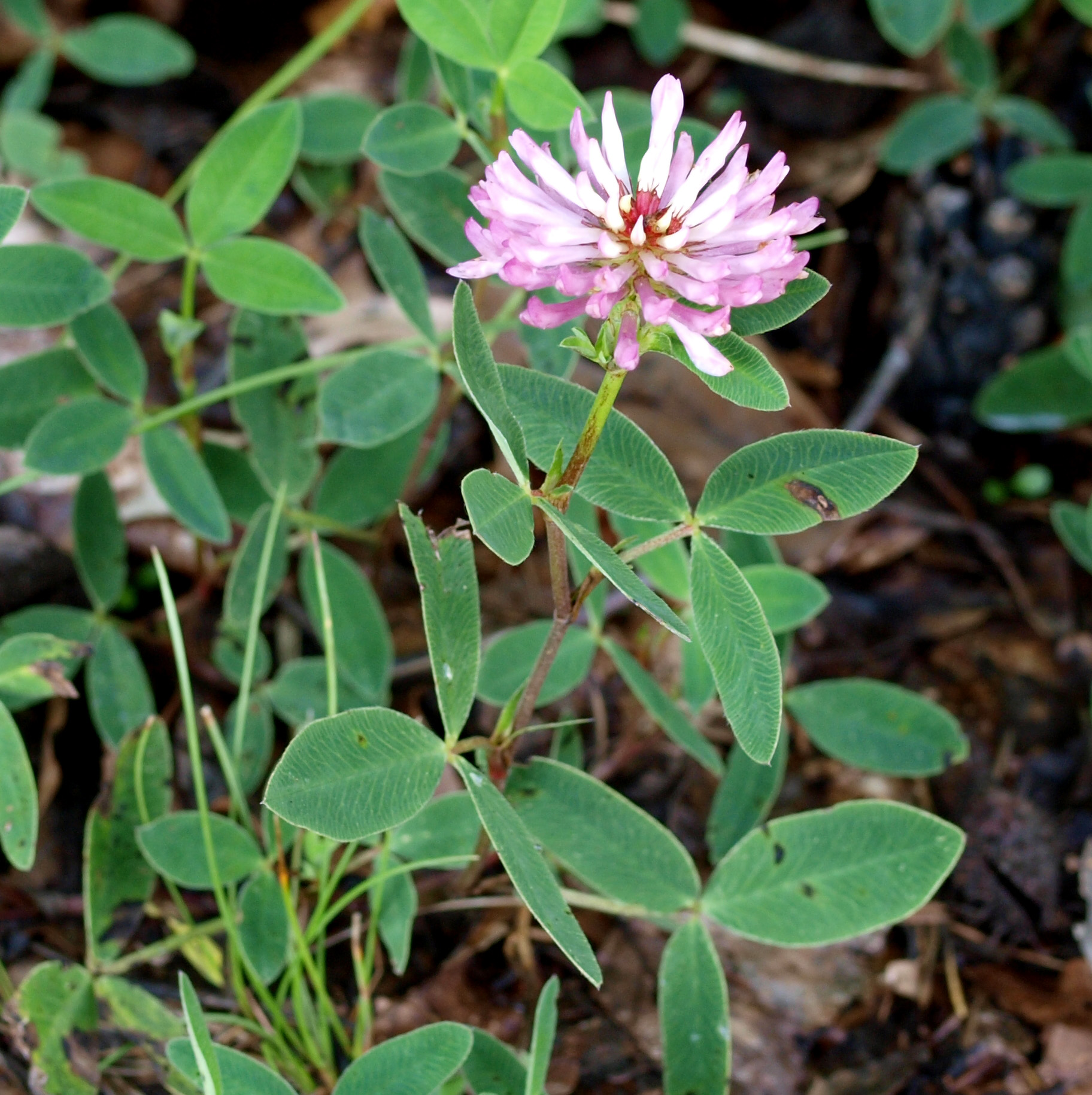 Trifolium medium: zig-zag stem